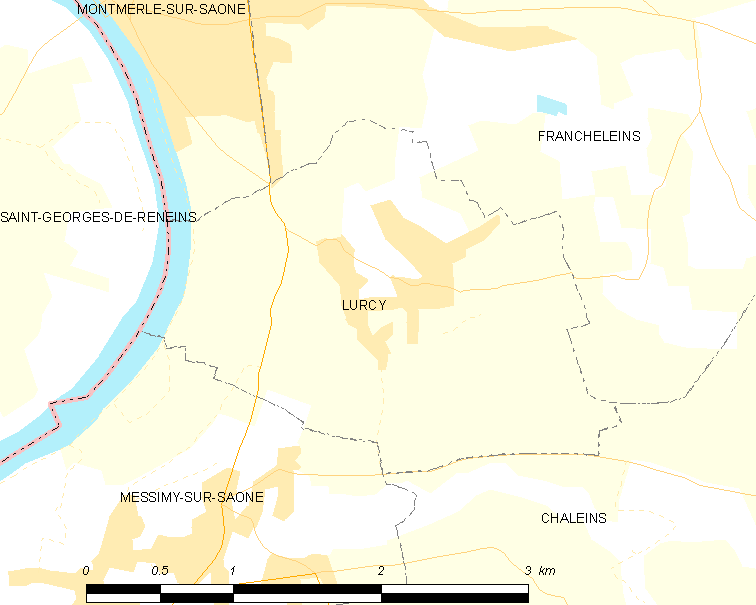 Map of French commune: Lurcy Map commune FR insee code 01225.png